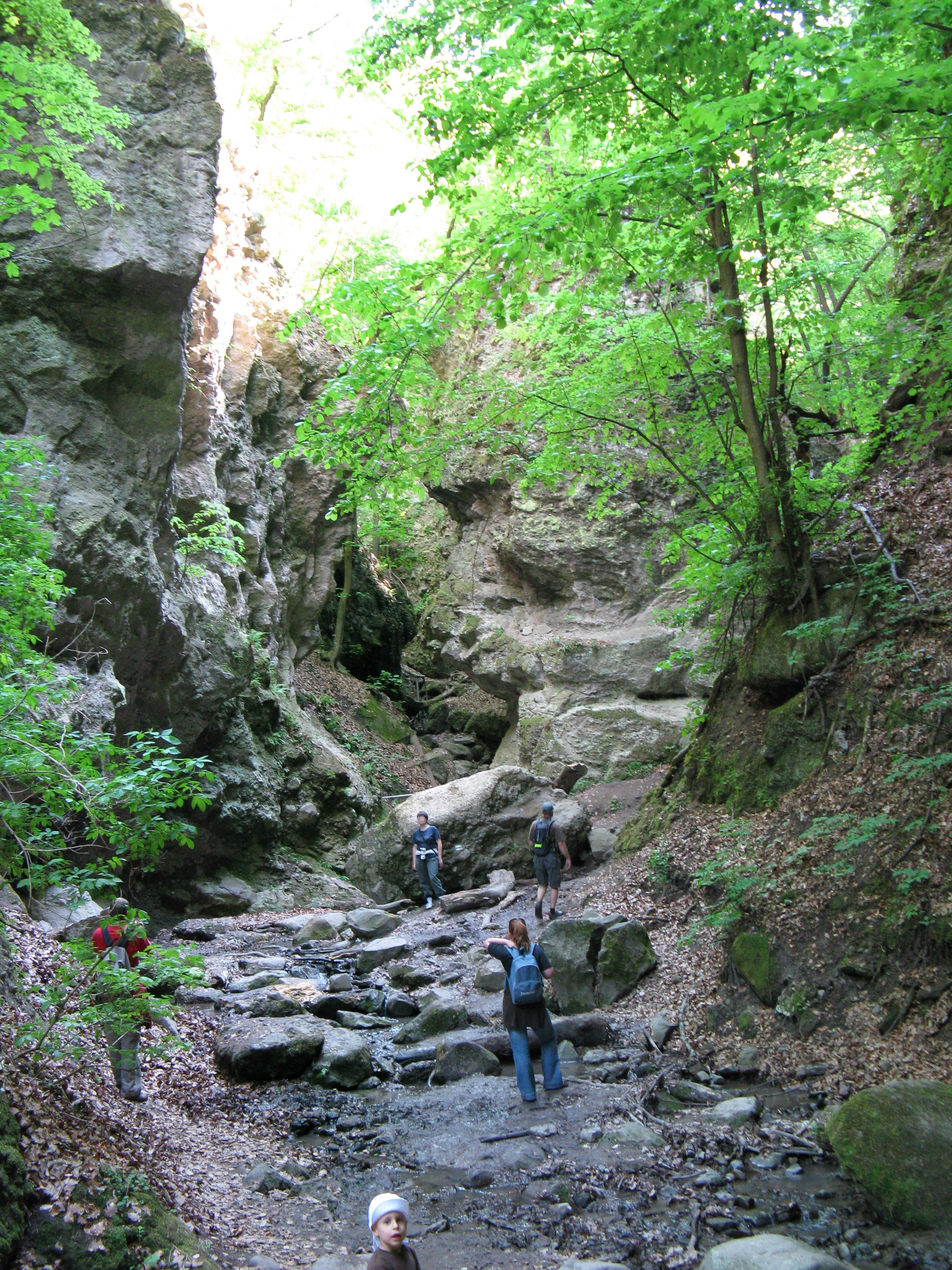 Rám-valley